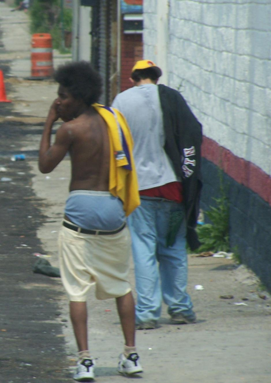 Gratiot Avenue in Detroit, Michigan (Summer 2007)